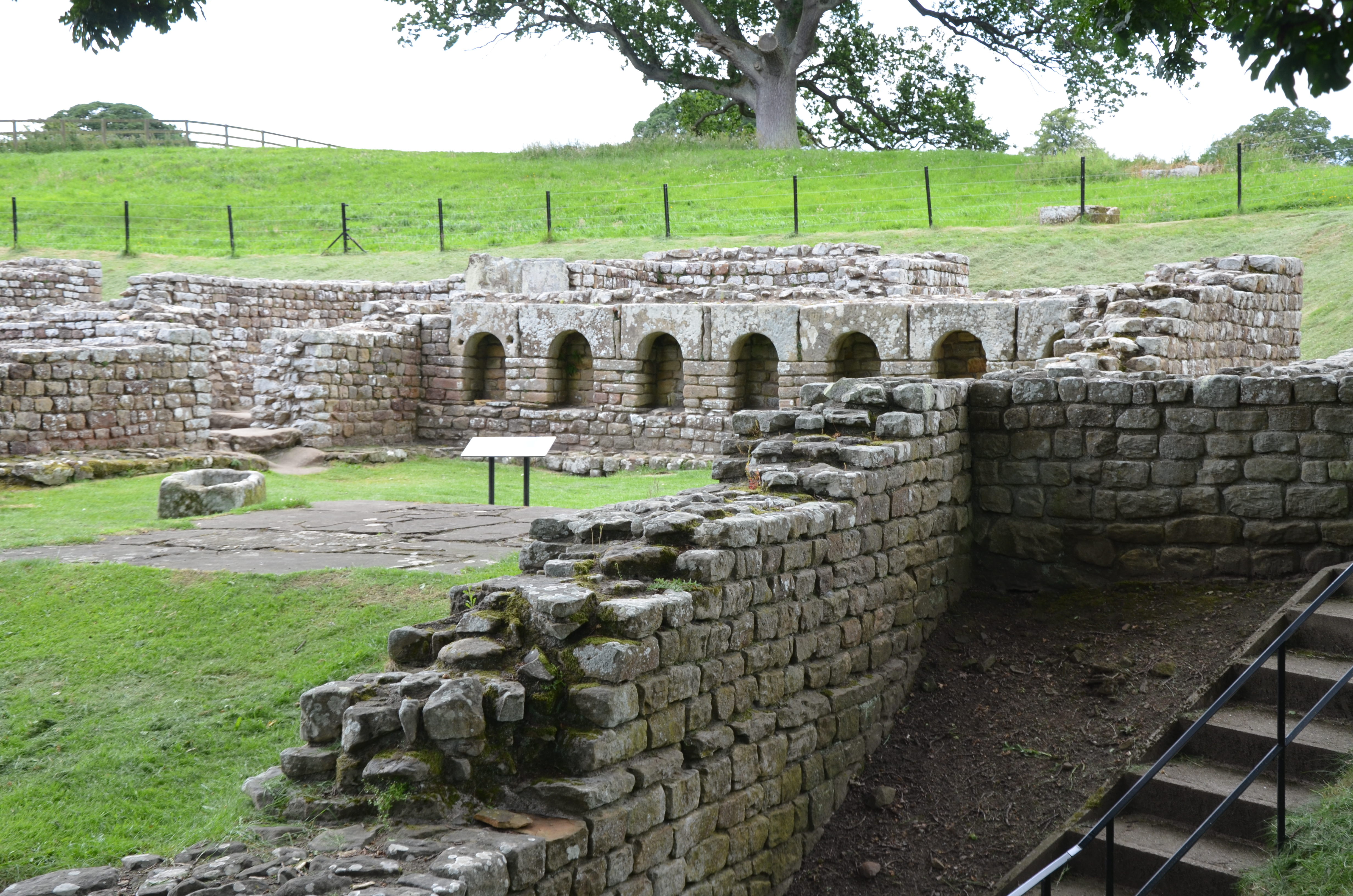 The Baths located outside the fort, considered as the best-preserved Roman military building in Britain, Chesters Roman Fort (Cilurnum), Hadrian's Wall